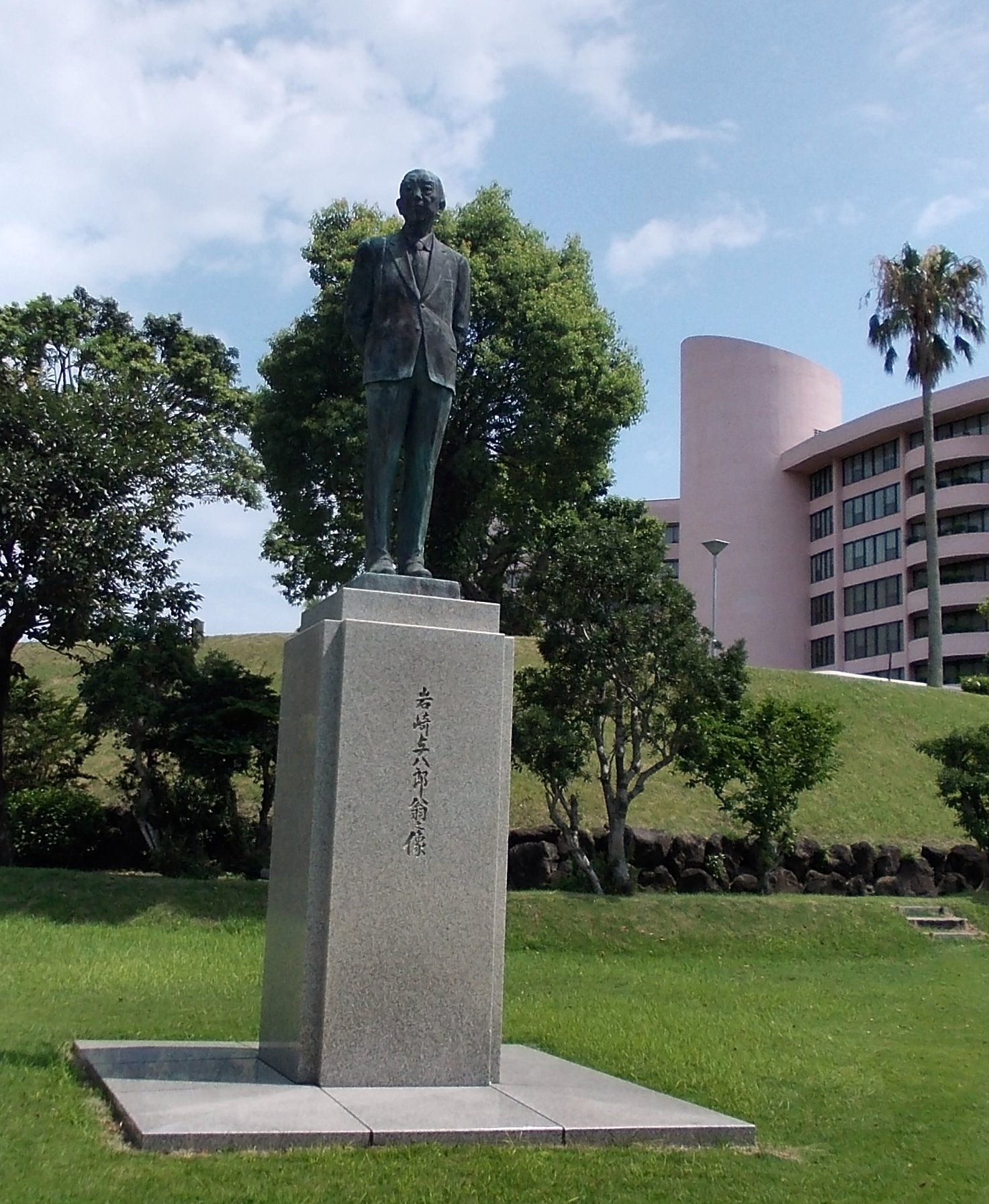 Statue of Yohachirō Iwasaki, the founder of Iwasaki Group at Ibusuki Iwasaki Hotel, Ibusuki, Kagoshima, Japan